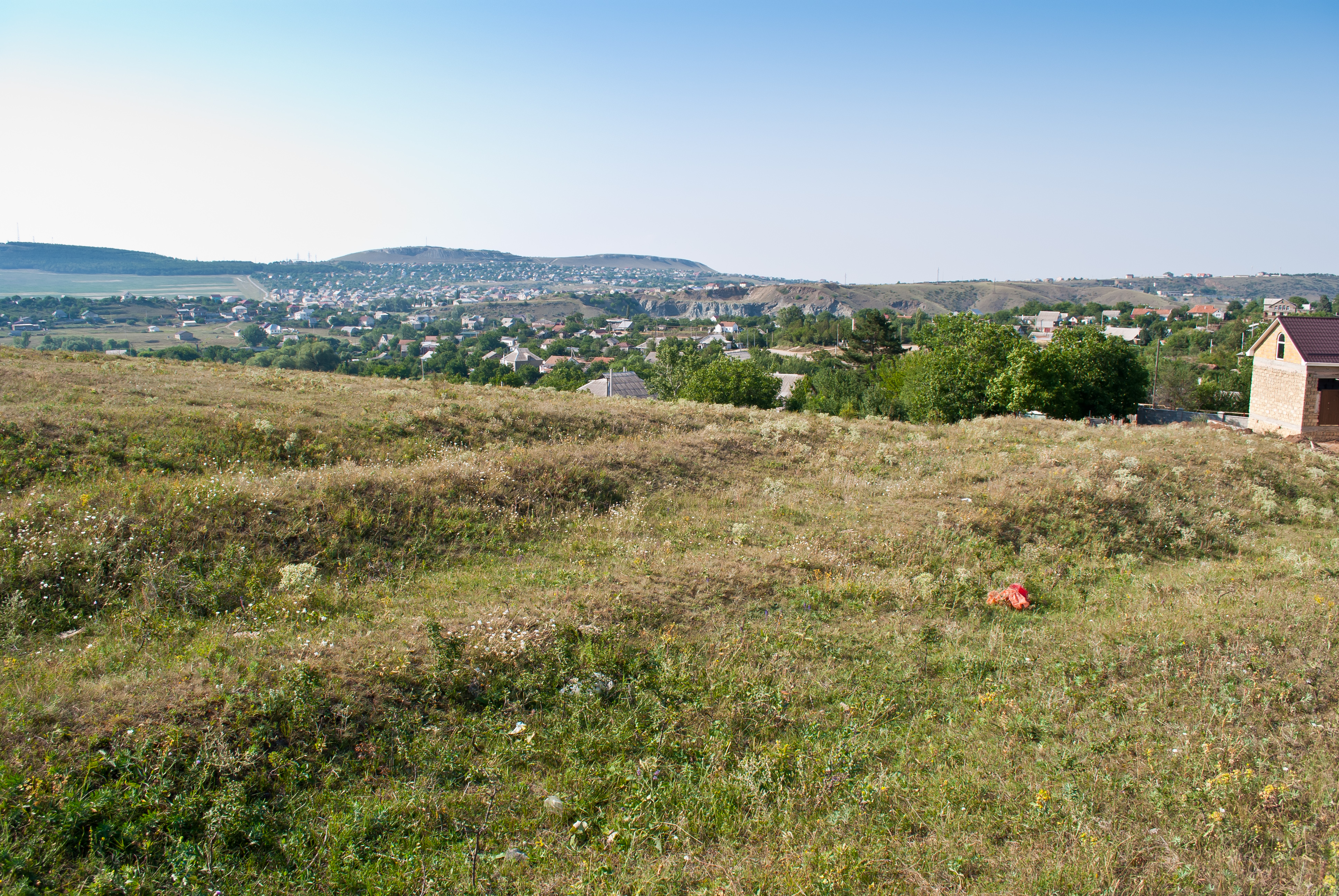 The village Ukrainka (Simferopol district of Autonomous Republic of Crimea)